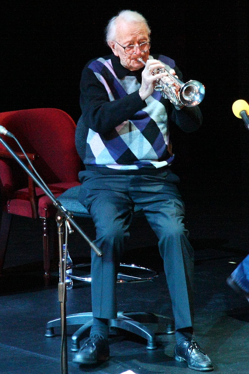 Humphrey Lyttelton, Jazz trumpeter, cartoonist and chairman of BBC Radio 4's long-running show "I'm Sorry I Haven't A Clue" - photo taken at the recording of "Humph In Wonderland", the ISIHAC 2007 Xmas Special, 25 Nov 2007.